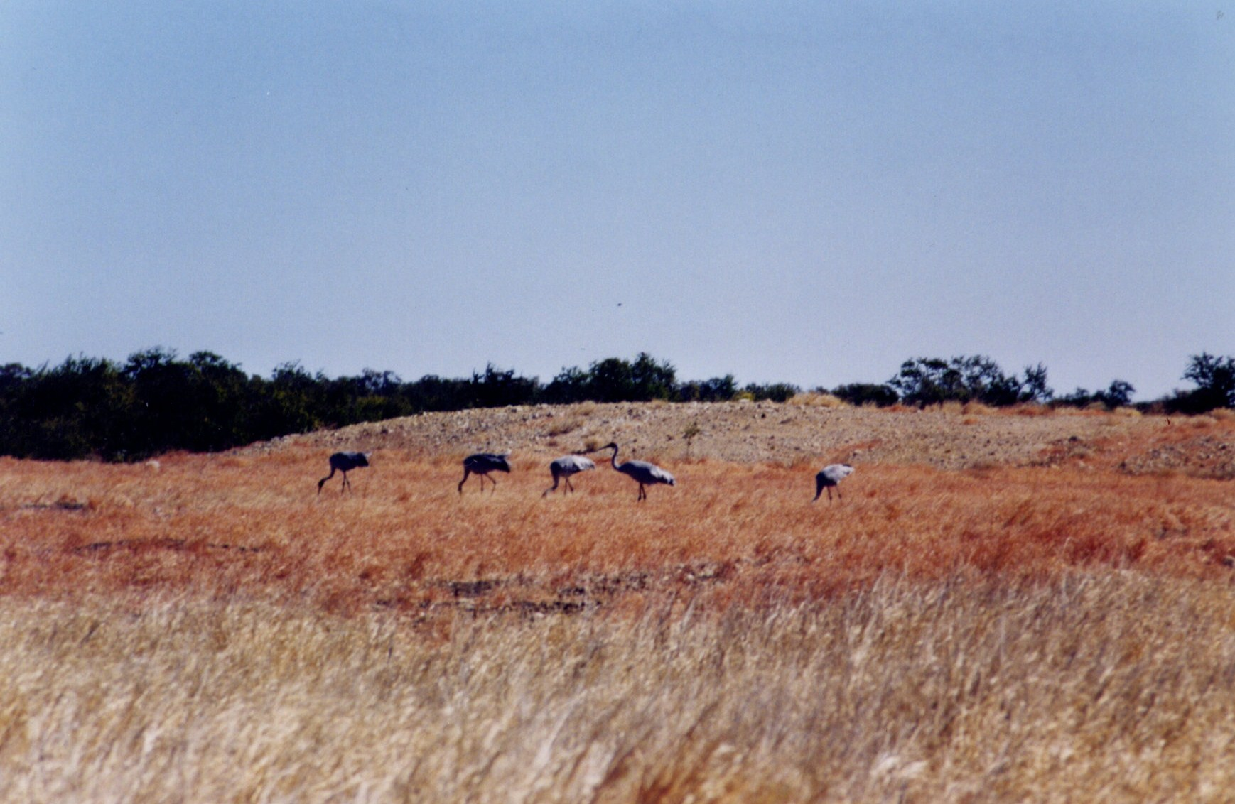 Brolgas Grus rubicunda, Brunette Downs station, Barkly Tableland, NT